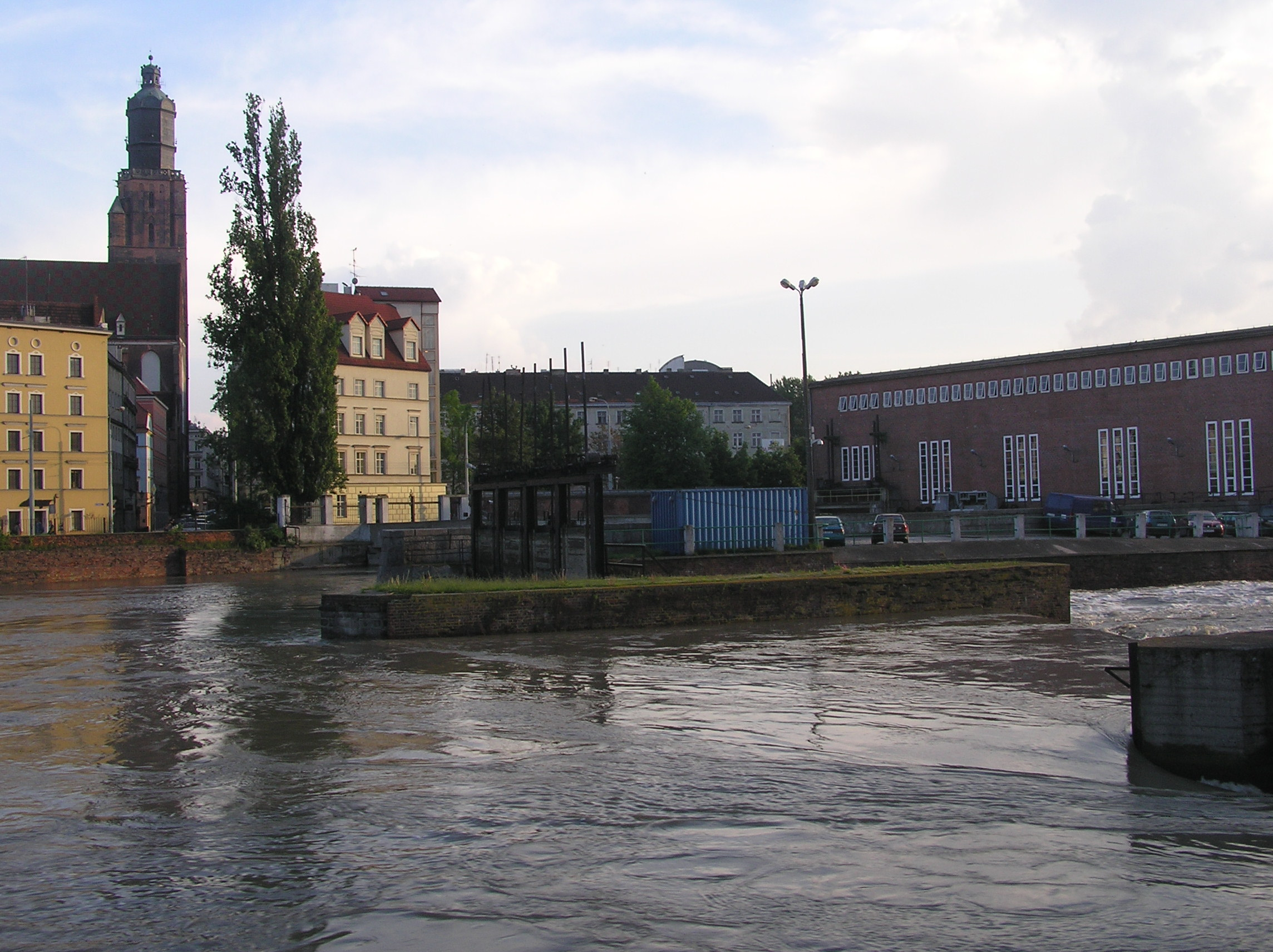 Wrocław, weir of southern hydroelectric plant in Wrocław